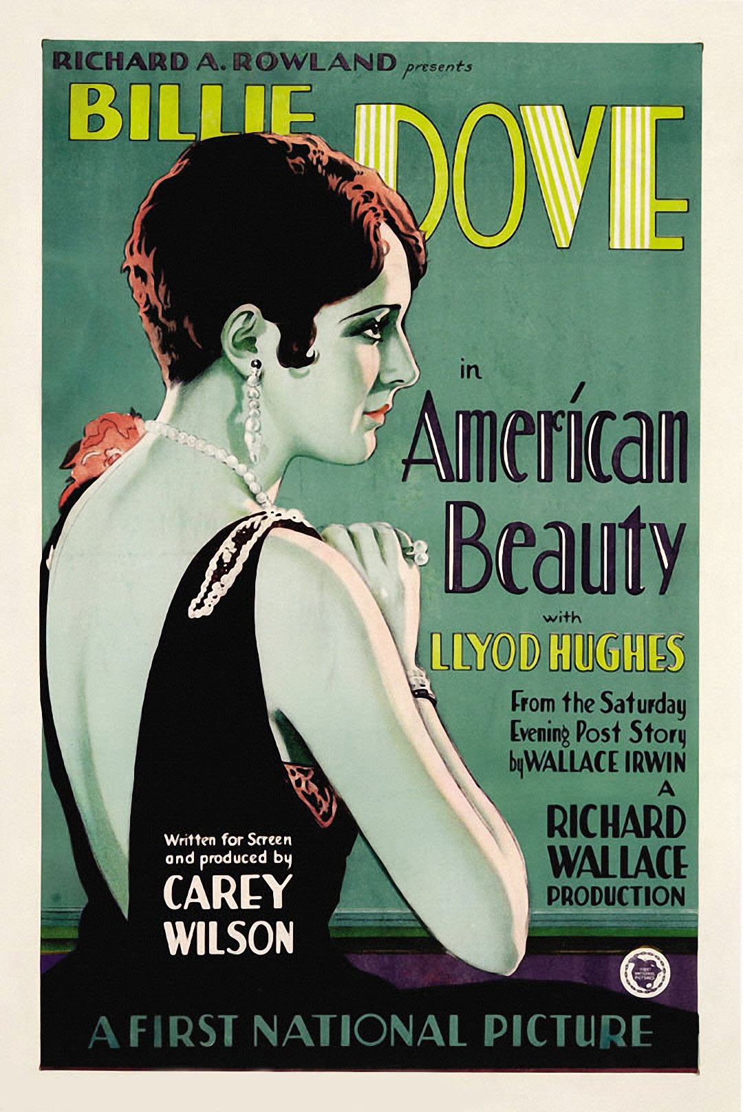 Poster for the 1927 film American Beauty. The film is considered to be lost.